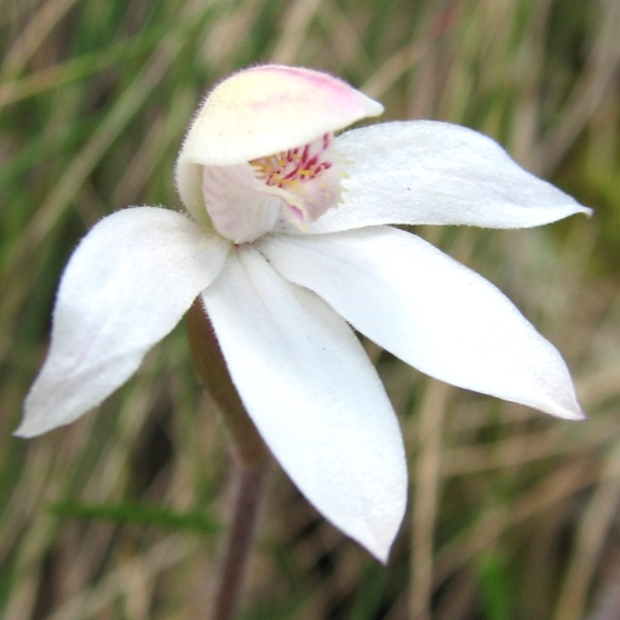 Caladenia alpina, Mount Buffalo National Park, Victoria, Australia